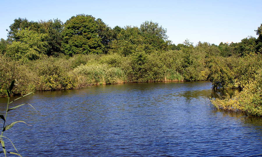 Vollsmose lake-area, Odense Kommune, Denmark